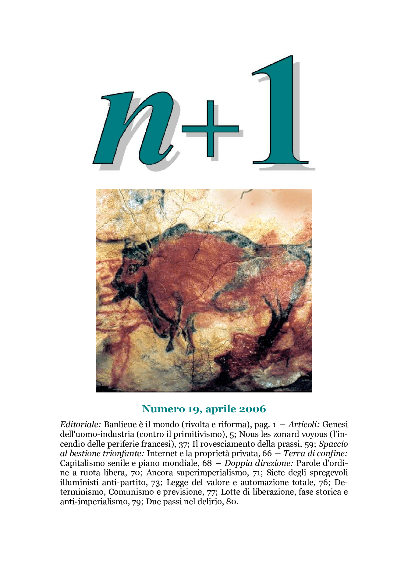 Cover of n+1 Review nr 19. Free